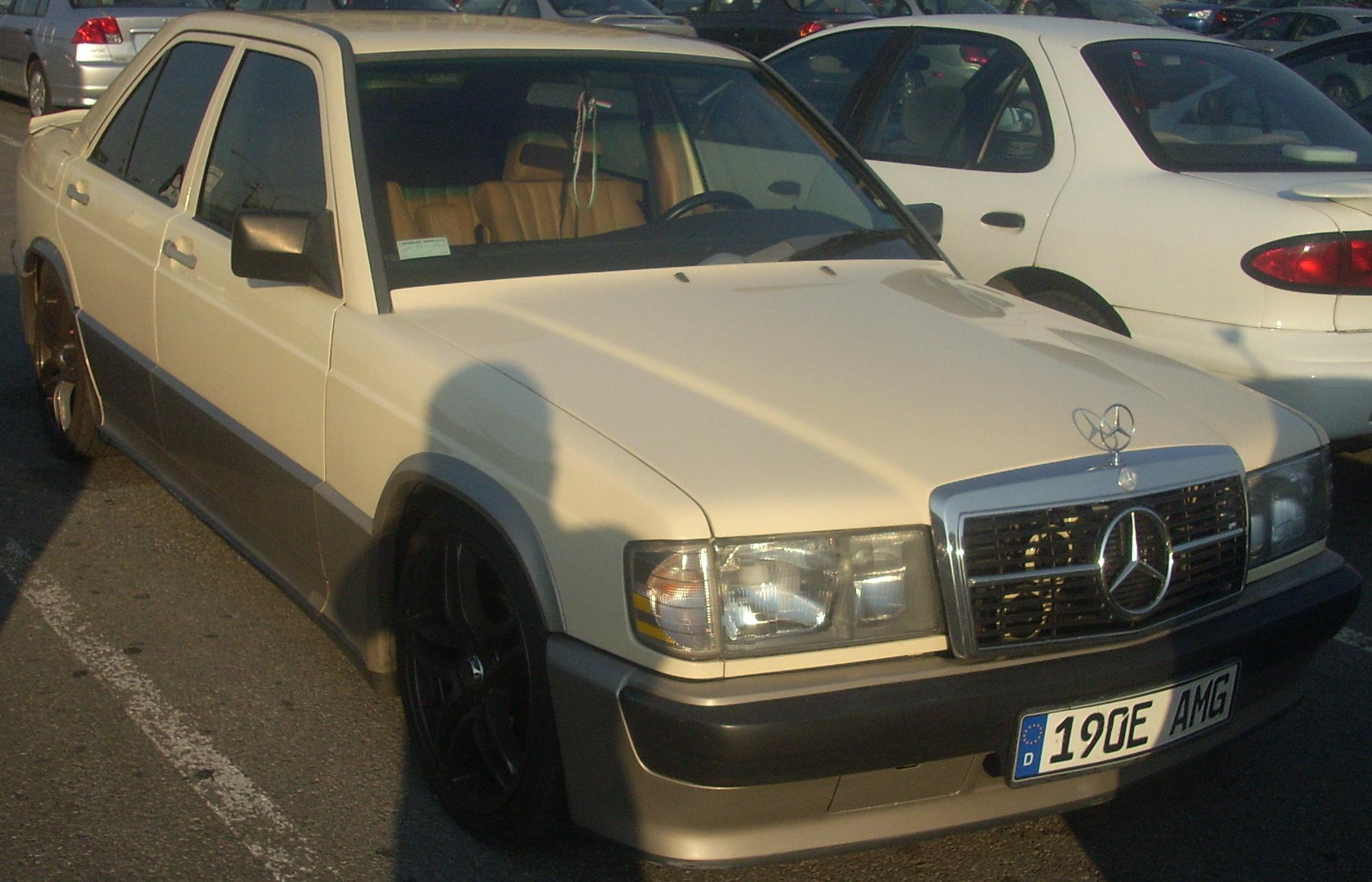 Mercedes-Benz 190E AMG photographed in Montreal, Quebec, Canada.